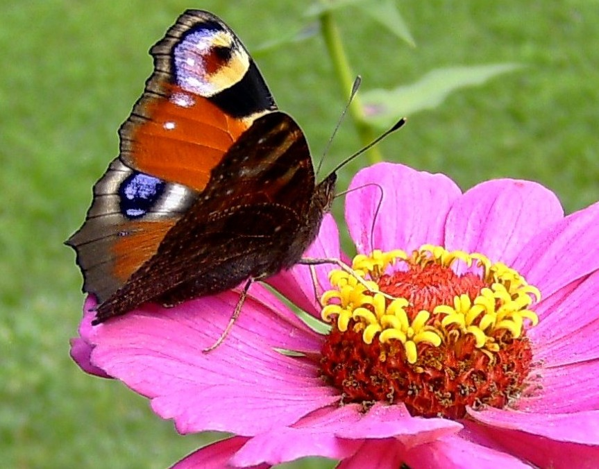 Inachis io, Frankfurt am Main, Germany